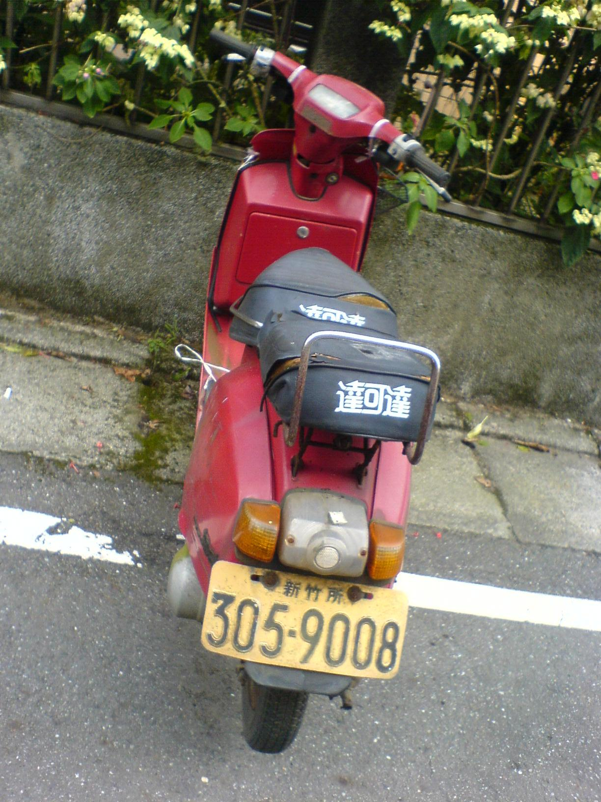 Sanyang Tact scooter, vehicle registration plates number 305-9008.